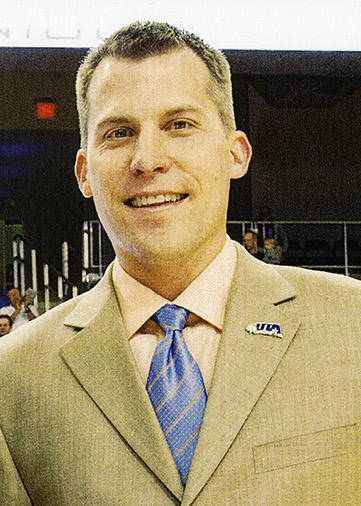 Scott Cross; College Park Center Grand Opening, University of Texas at Arlington (U. T. A.) vs. UTSA basketball game.